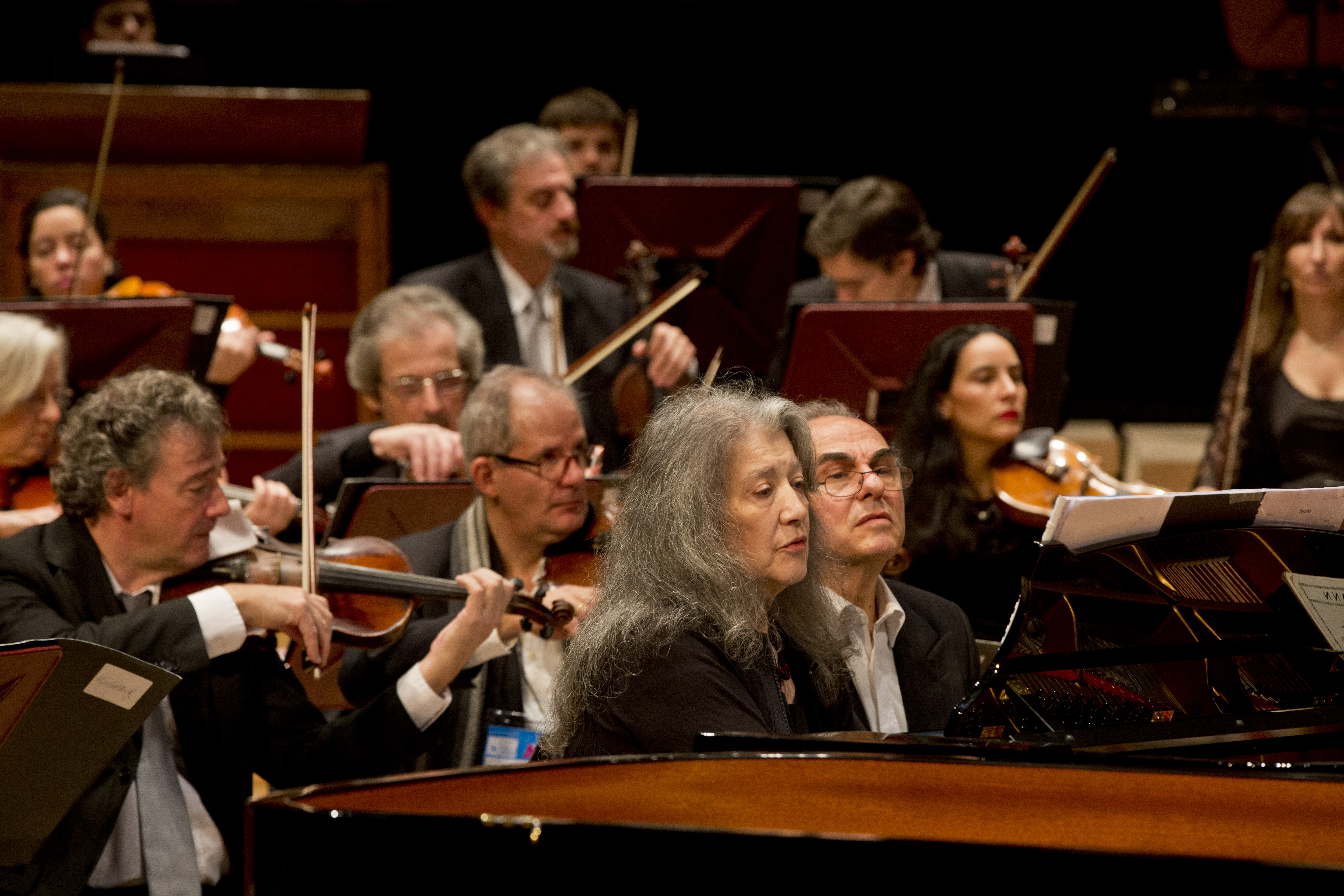 Argentine pianist Martha Argerich during the concert given at the Néstor Kirchner Cultural Centre.